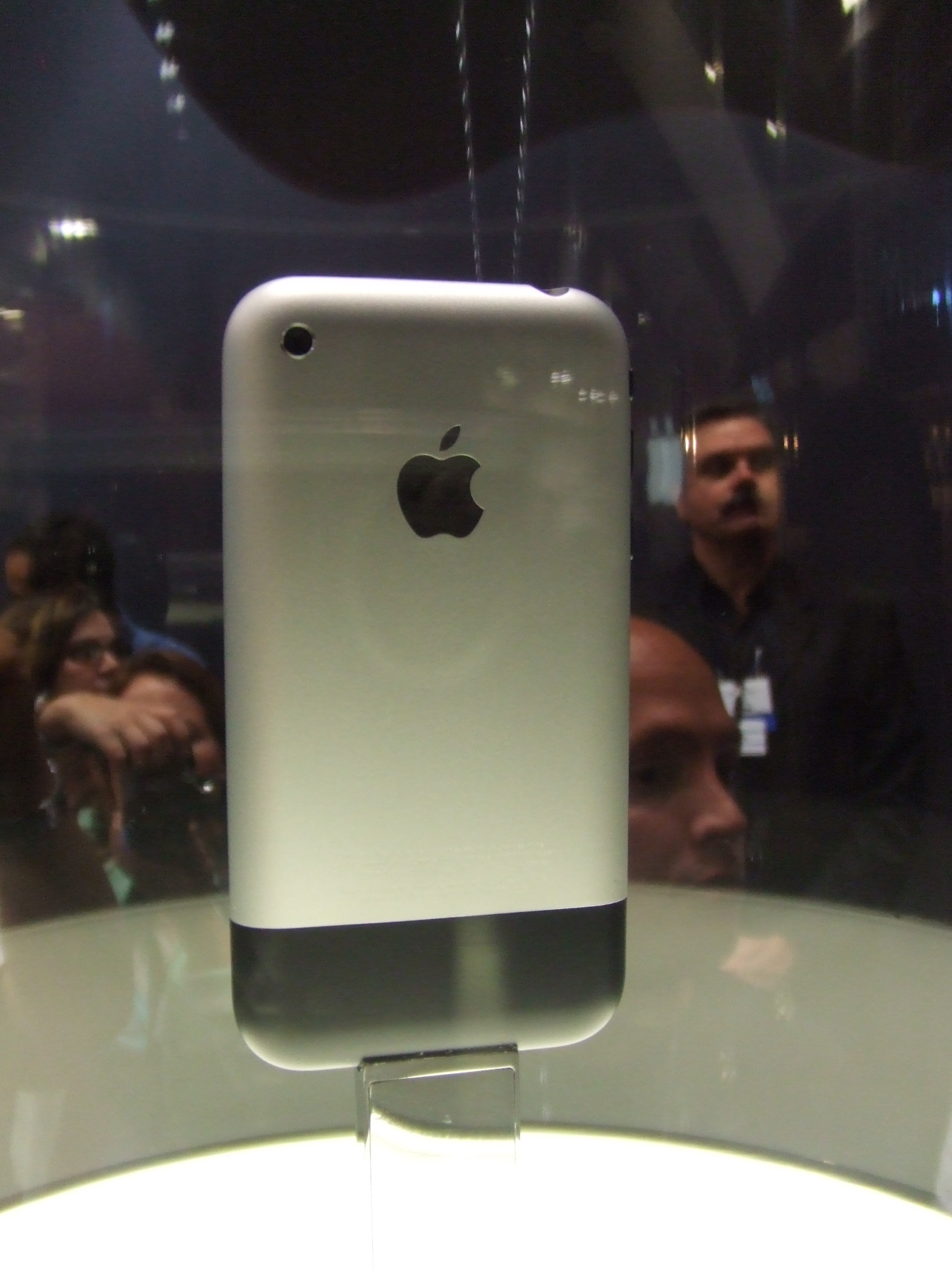 Apple's secret service must have been nearby